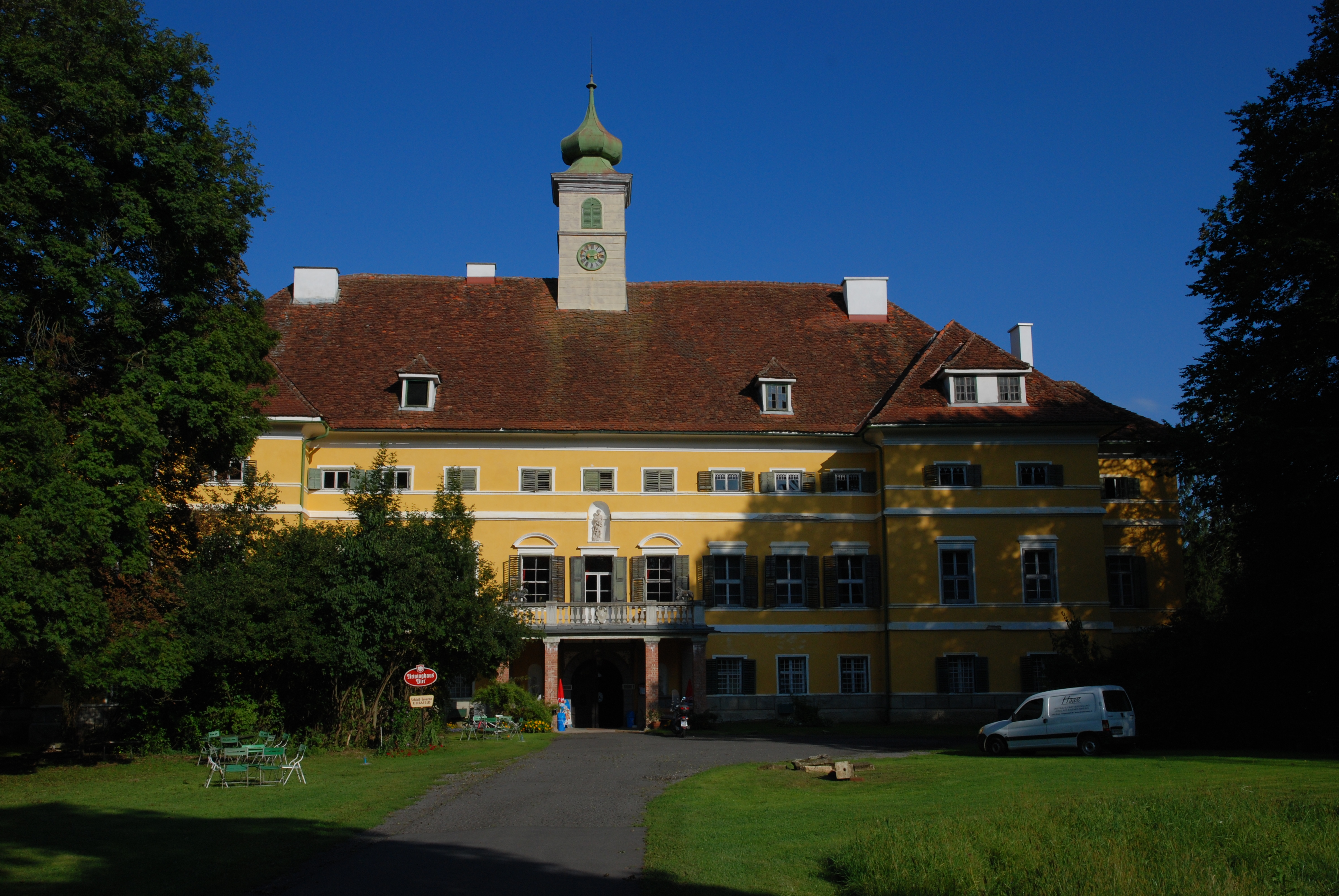 Schloß Poppendorf